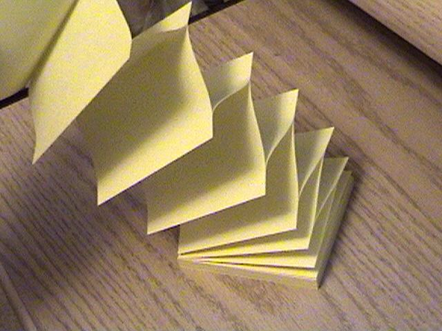 Post-it notes